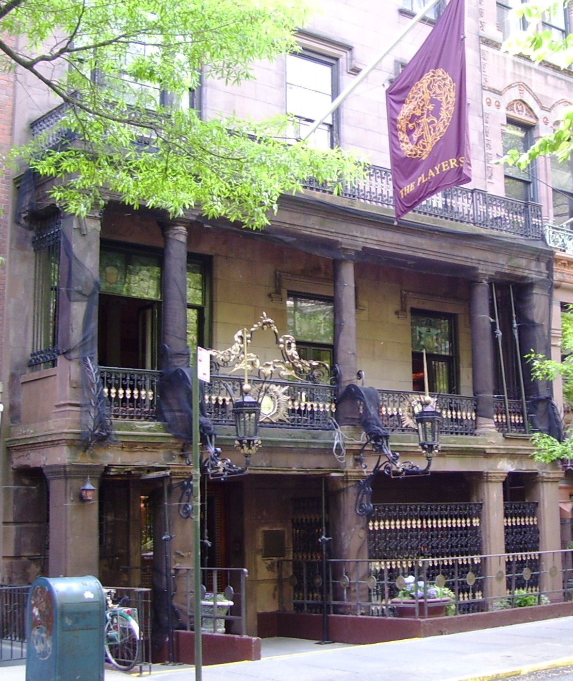 The Players' Club, #16 Gramercy Park, founded by Edwin Booth in 1888. The building dates from 1845, but the portico and other details came about when it was remodeled for Booth by Stanford White in 1888.